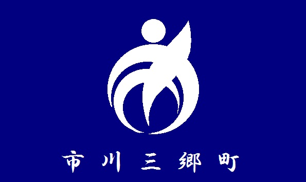 Flag of Ichikawamisato Yamanashi